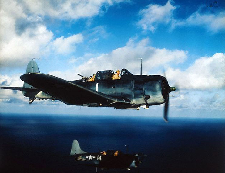 Douglas SBD-5 Dauntlesses in tricolor scheme from USS Yorktown (CV-10), ca. 1944.